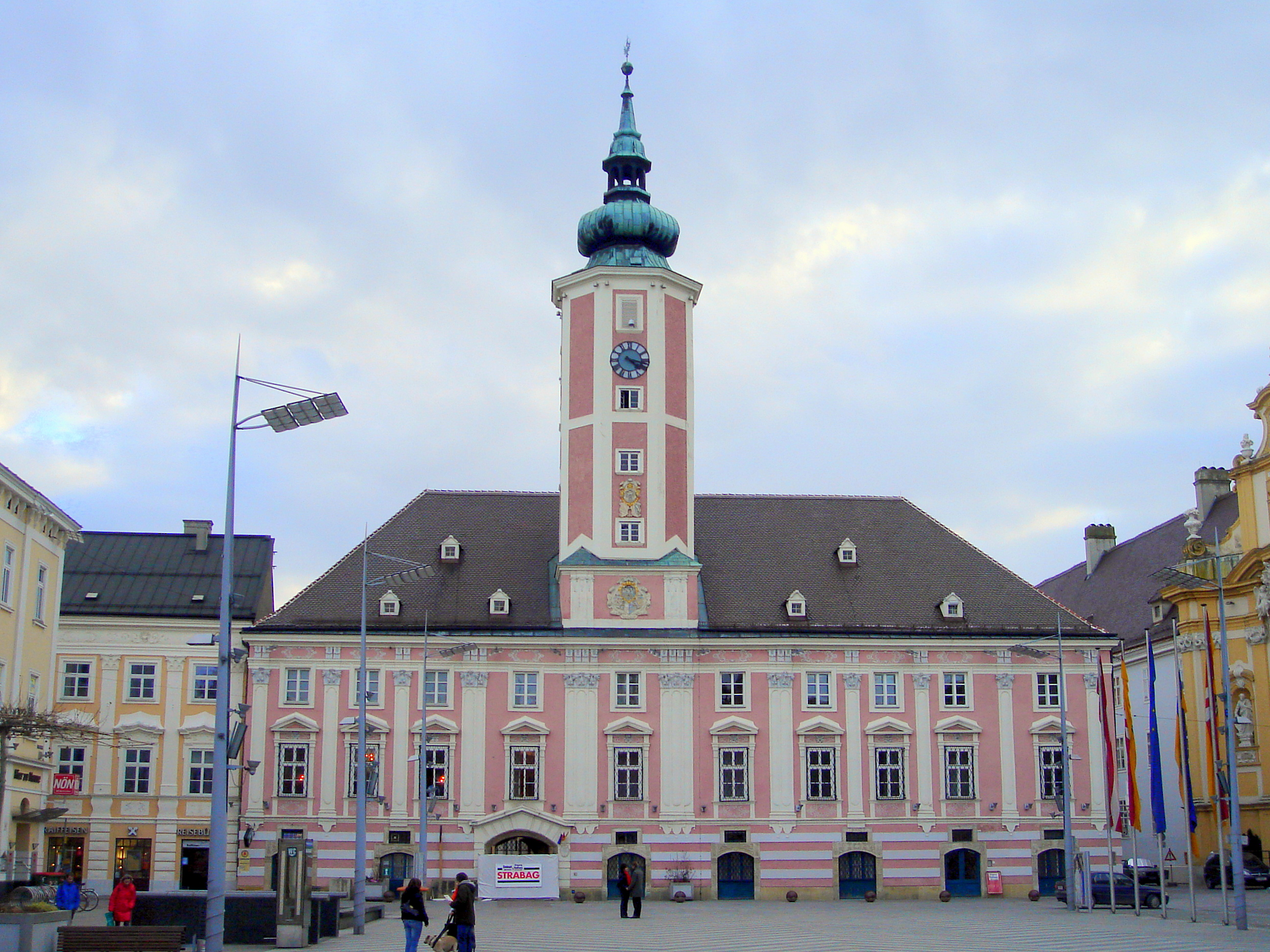 The Sankt Pölten Town Hall, Austria.